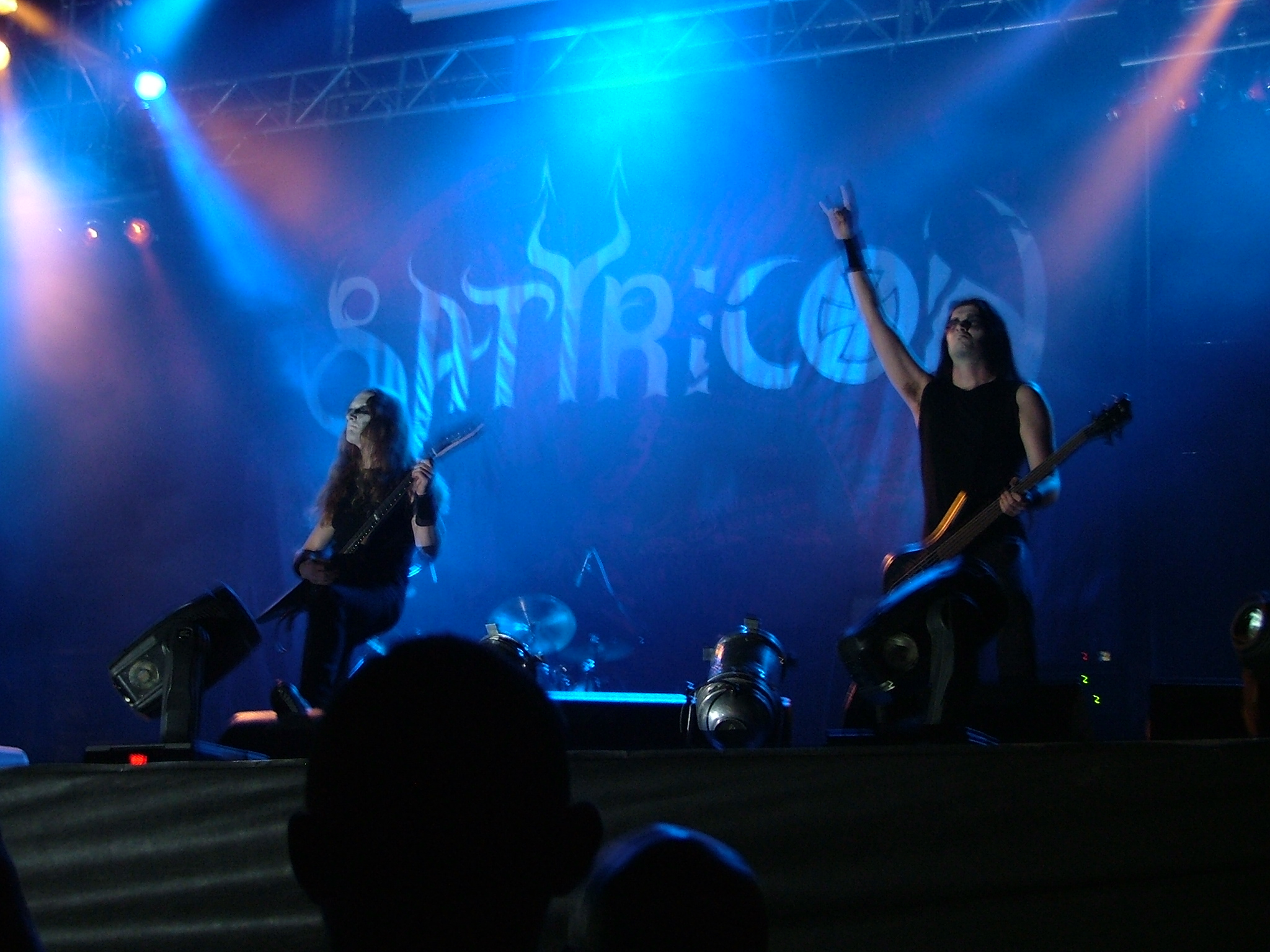 Norwegian black metal band Satyricon at the Metalcamp in Tolmin